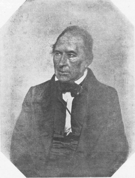 Daguerreotype of author Erik Gustaf Geijer from the 1840s